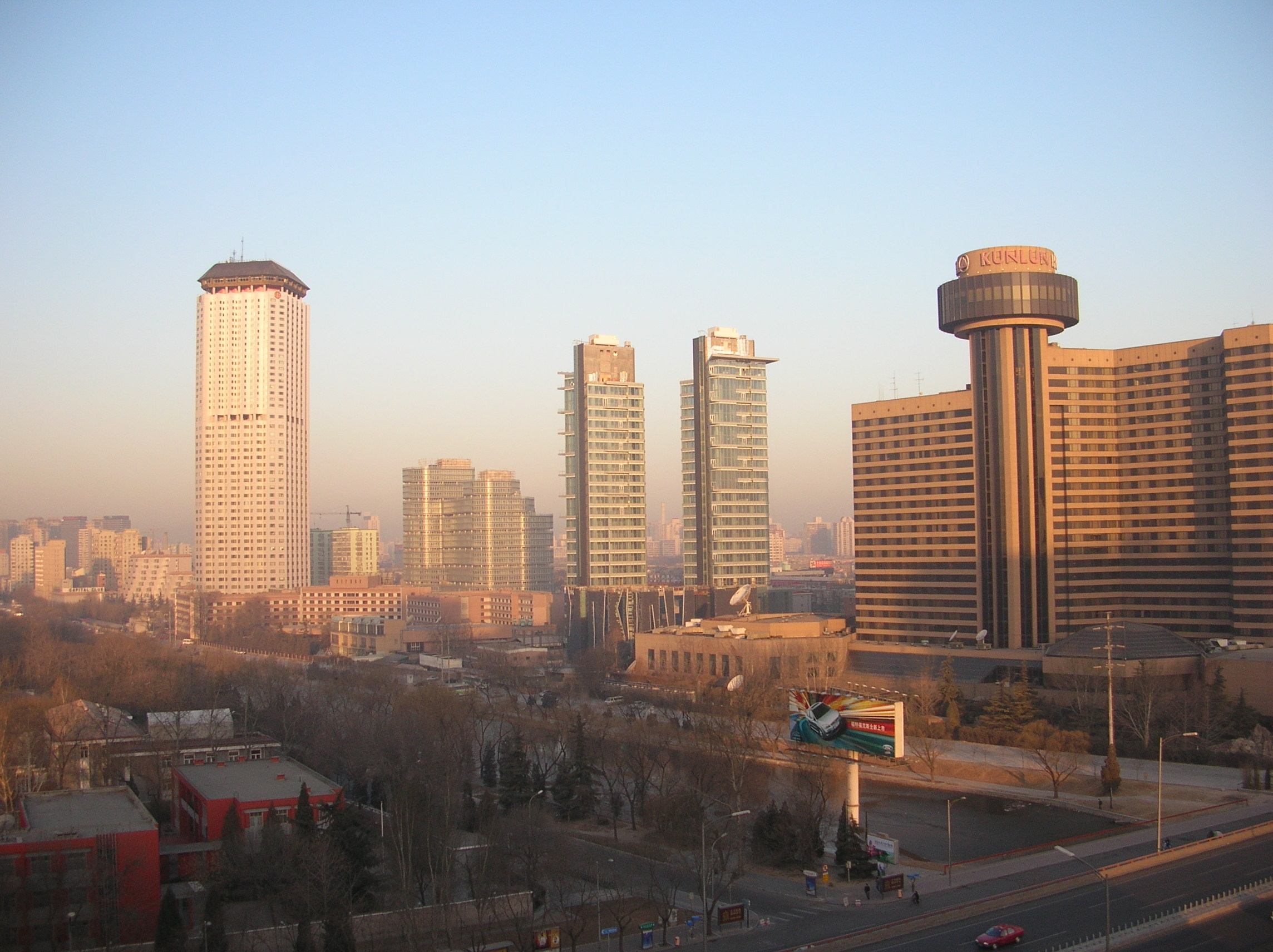 Liangmaqiao, Chaoyang District, Beijing, China Third Ring Road over the Liangma River at Liangmaqiao with the Kunlun Hotel to the right